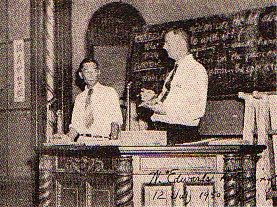 W. Edwards Deming in Tokyo